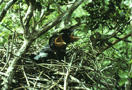 Corvus kubaryi nest with two chicks